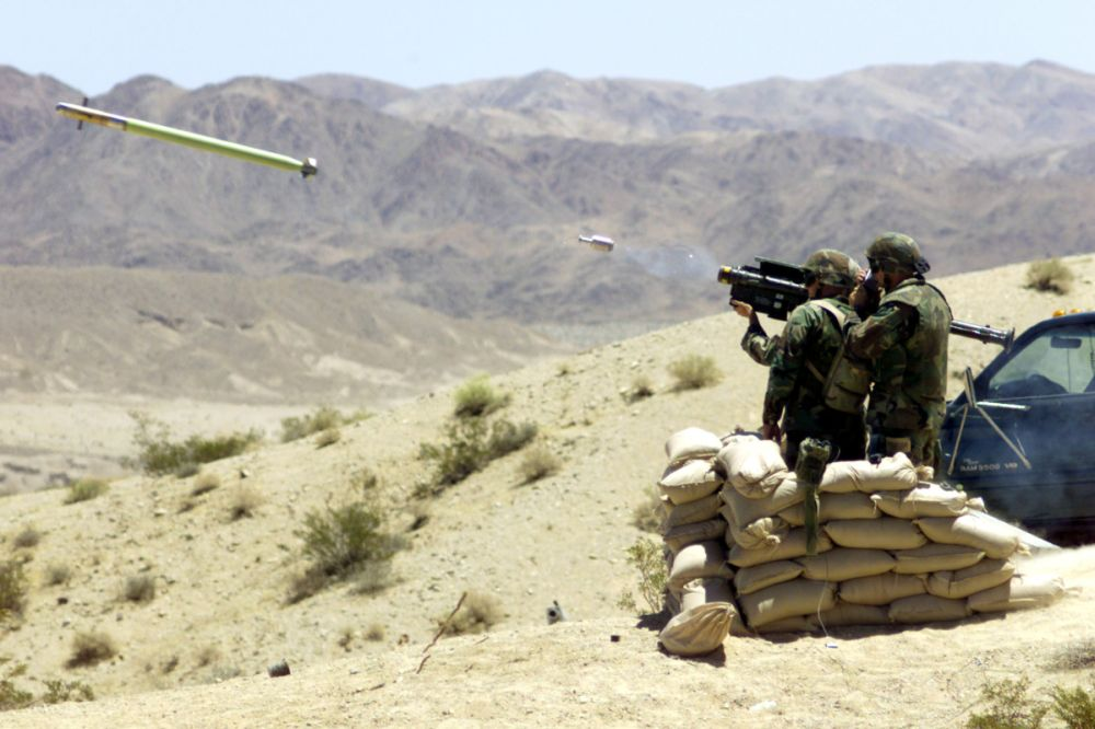 Stinger / Marines launch a Stinger anti-aircraft missile at a target aircraft during a live fire exercise at the Marine Corps Air Ground Combat Center Twentynine Palms, Calif., on July 15, 2001. The Marines are assigned to the Third Low Altitude Air Defense Battalion. DoD photo by Lance Cpl. Manuel Valdez, U.S. Marine Corps. (Released)